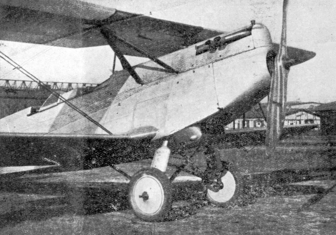 Albatros L 75 photo from L'Air July 15,1928